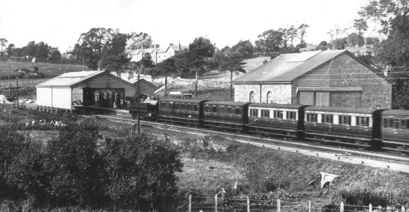 Moretonhampstead railway station, Devon. The image is believed to have been taken in 1909, but certainly not before 1905. It is looking from the south west; the goods shed is behind the train and the shed of the passenger station is further in the background.